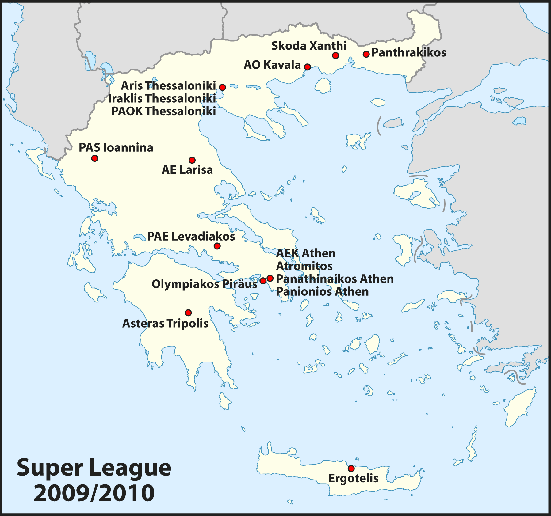 Map of the Super League Greece teams for 2009/10 season